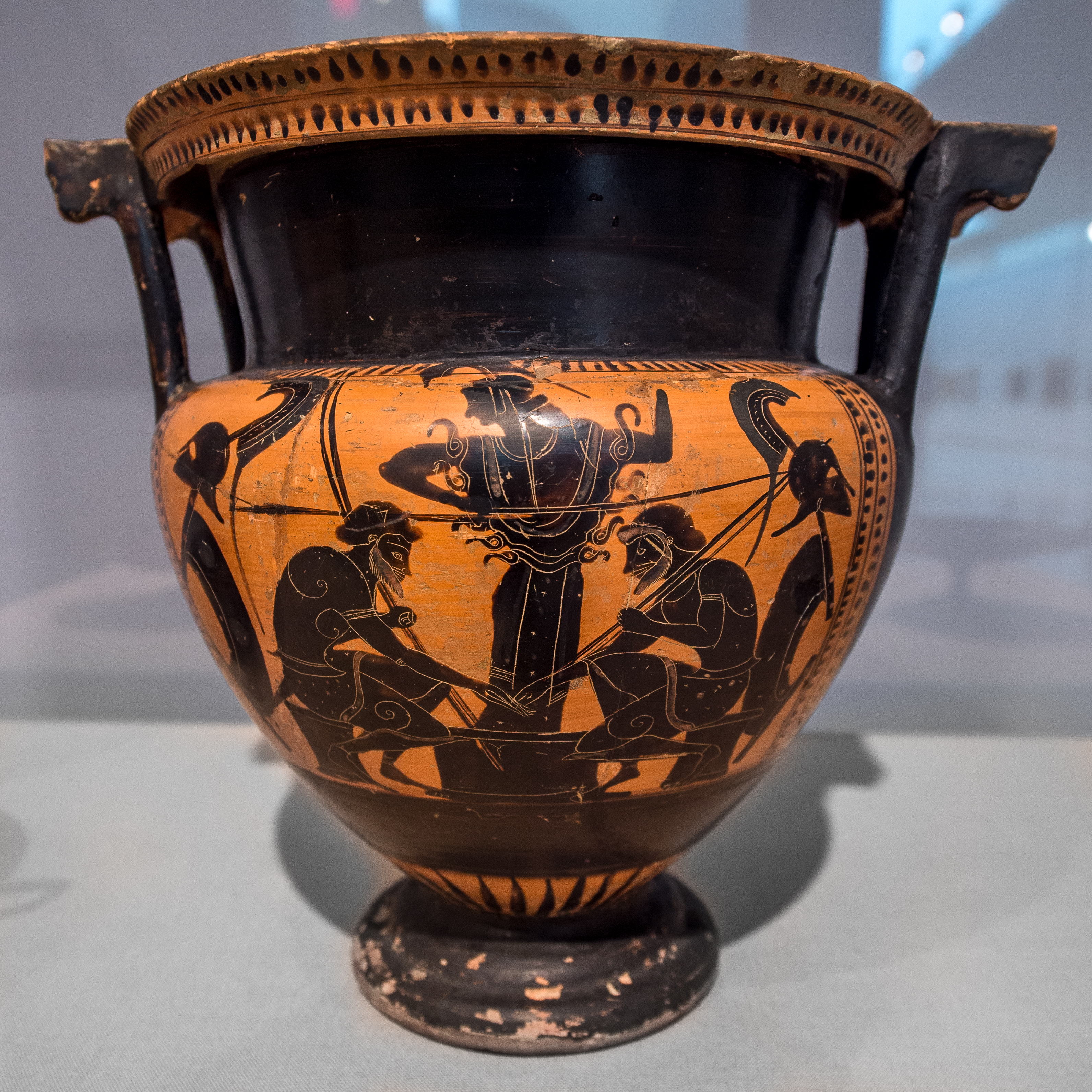 Ancient Greek Vessel on display at the Carnegie Museum of Art